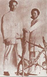 Wang Jinwei and Chan pitqun